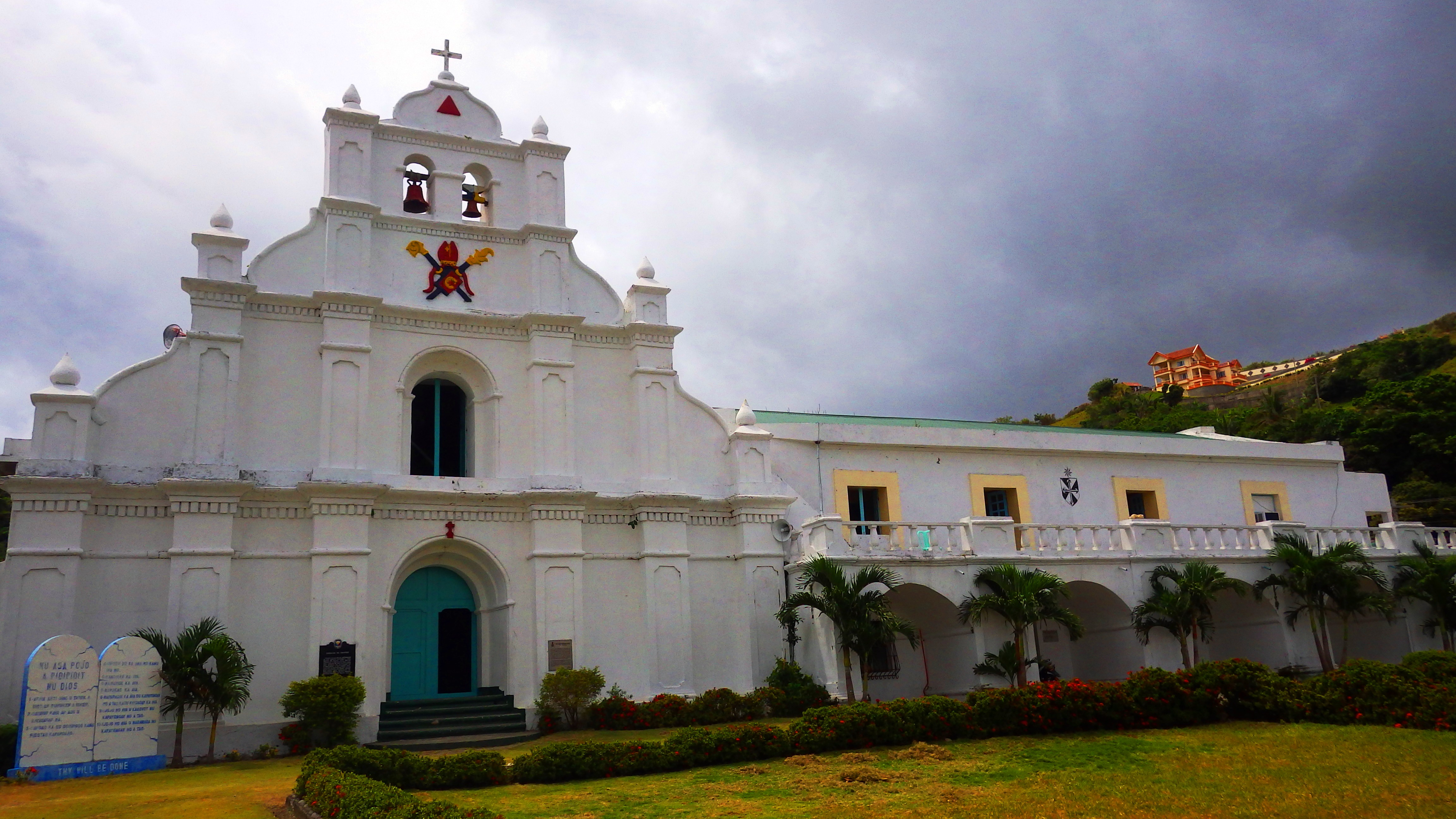 San Carlos Borromeo Church